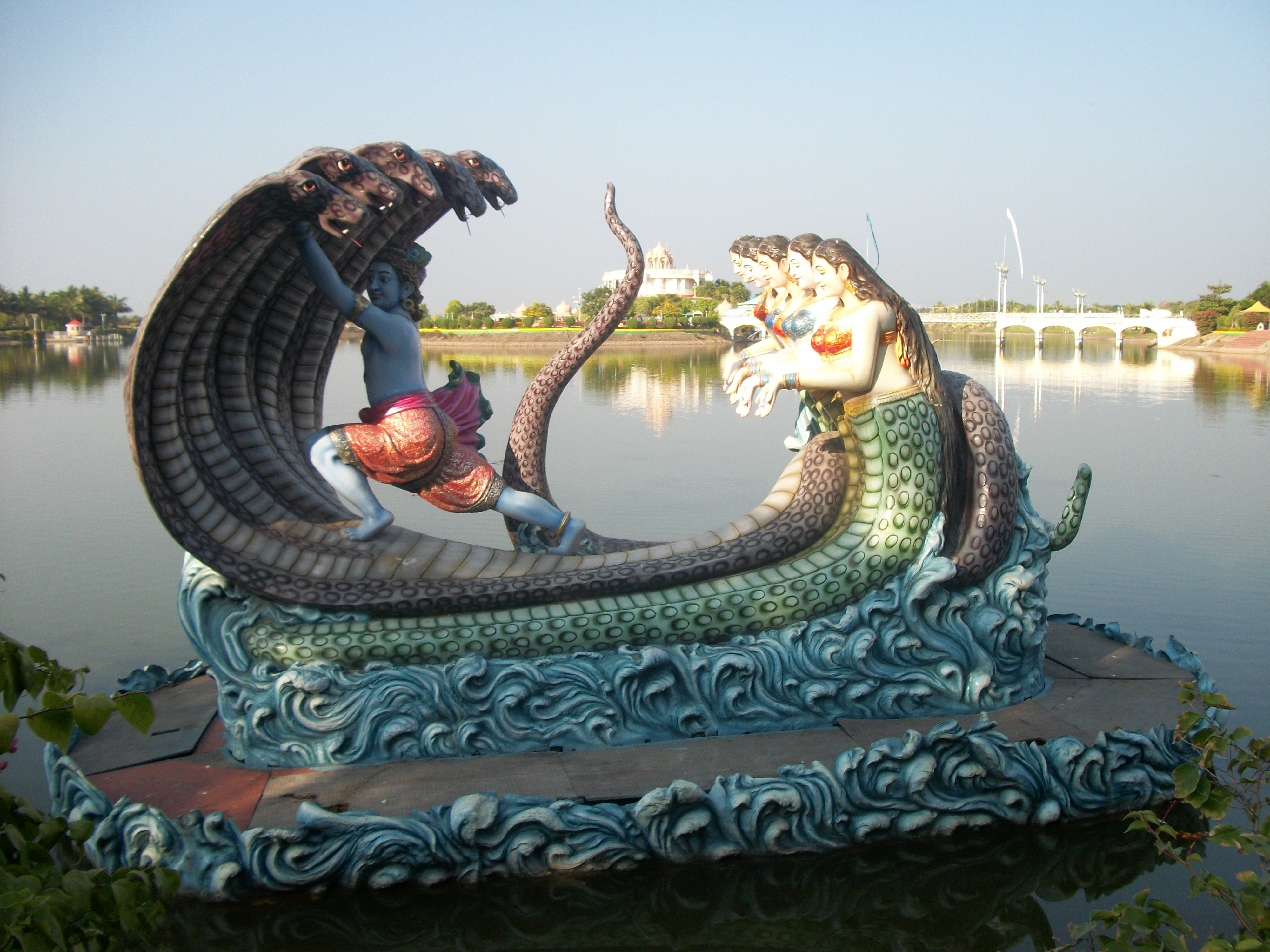 A scene of Kaliyamardan from Mahabharata where Krishna is fighting with Kaliya, the serpent. A scenary from Anand Sagar Shegaon.